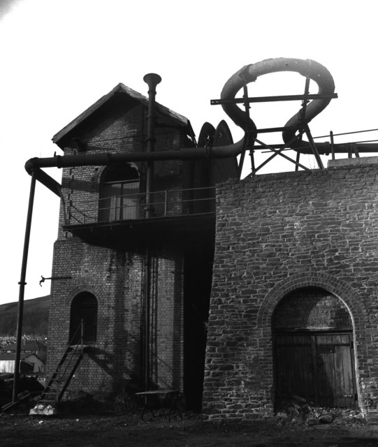 Waddle Fan, Deep Duffryn Colliery, formerly Nixon's Navigation Colliery. Circa 1880 steam driven Waddle fan for ventilating the pit. Standby until 1967. The 40' fan has been cut-up but the driving steam engine is at Big Pit Mining Museum. Colin Bowden writes as follows - The fan engine was installed at Nixon's Navigation Colliery (North Pit), but the two shafts of this were taken over and used for pumping and ventilation by Deep Duffryn Colliery, for which the Waddle fan was used as a standby ventilator until 1967, when it was condemned. I don't know when the change occurred - it seems that Nixon's Navigation was never operated by the NCB, so it was presumably before nationalisation. This site has also been called Abergorki colliery by various authors.